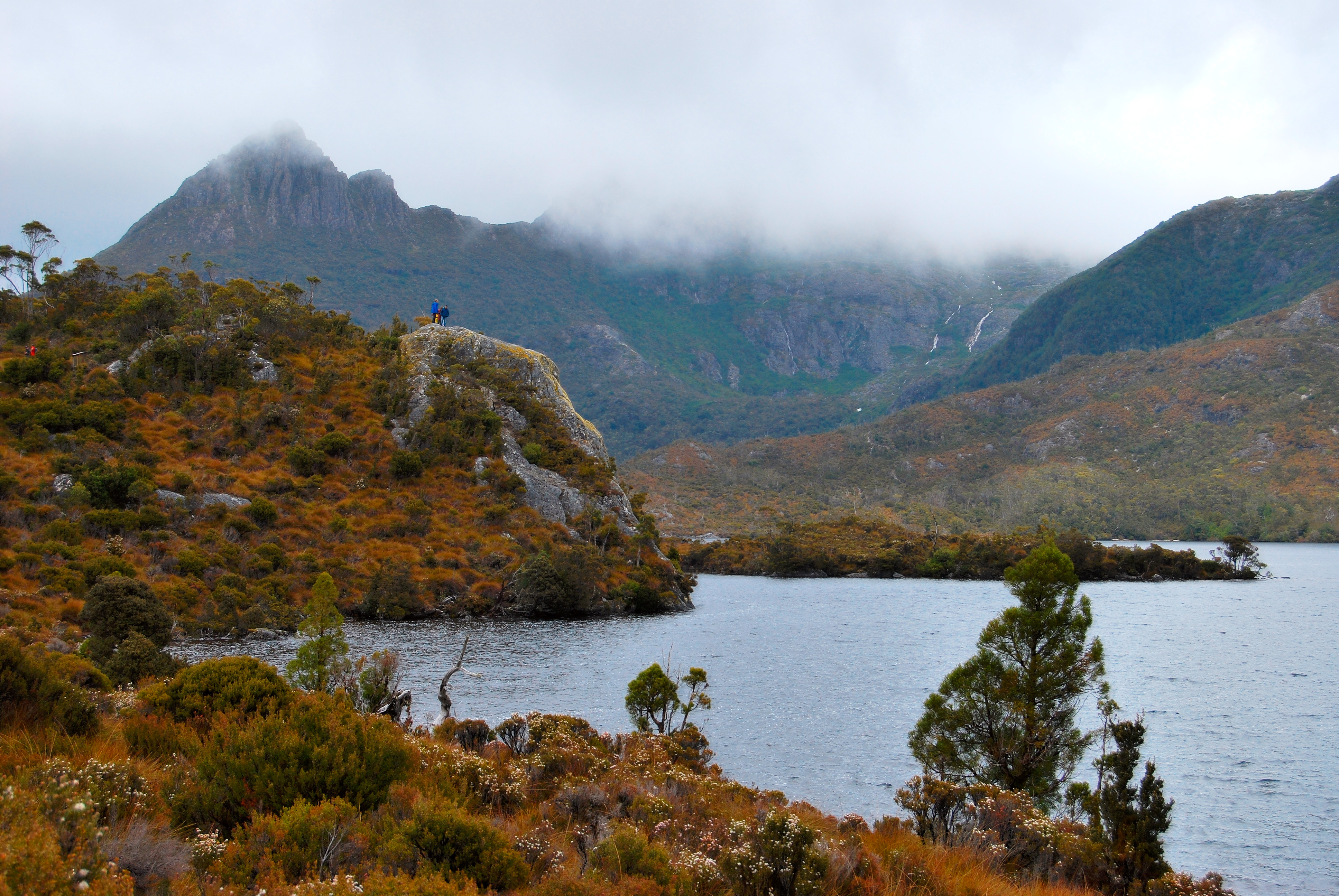 Cradle Mountain covered with could and Dove lake in the foreground, Tasmania, South Australia